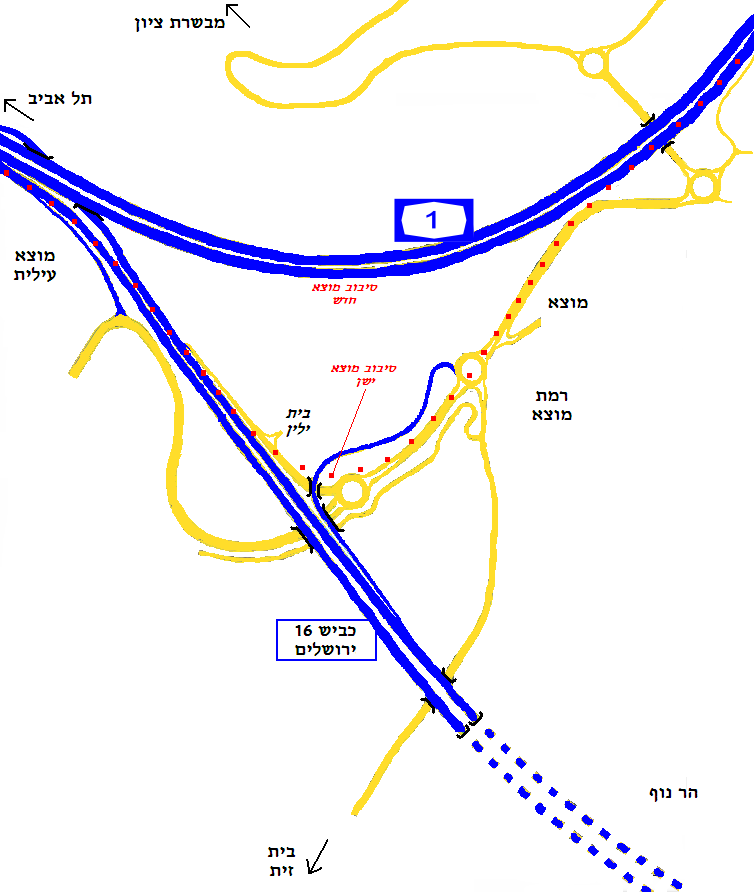 Planned junction of Israel Highway 1 and future Jerusalem Road 16